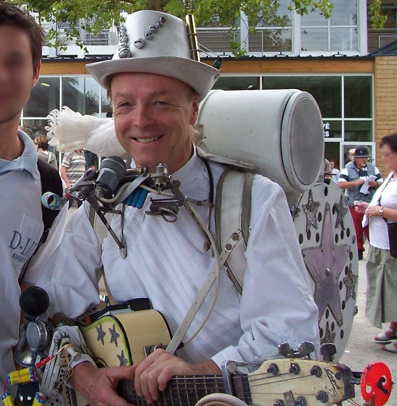 Rémy Bricka, a french musician, during the horse racing in 2006 in Craon, Mayenne in France.